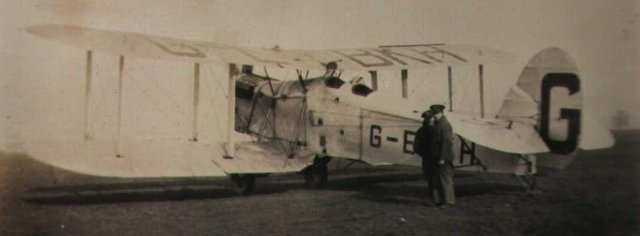 Blackburn Dart Original image taken by a British government employee prior to 1956.